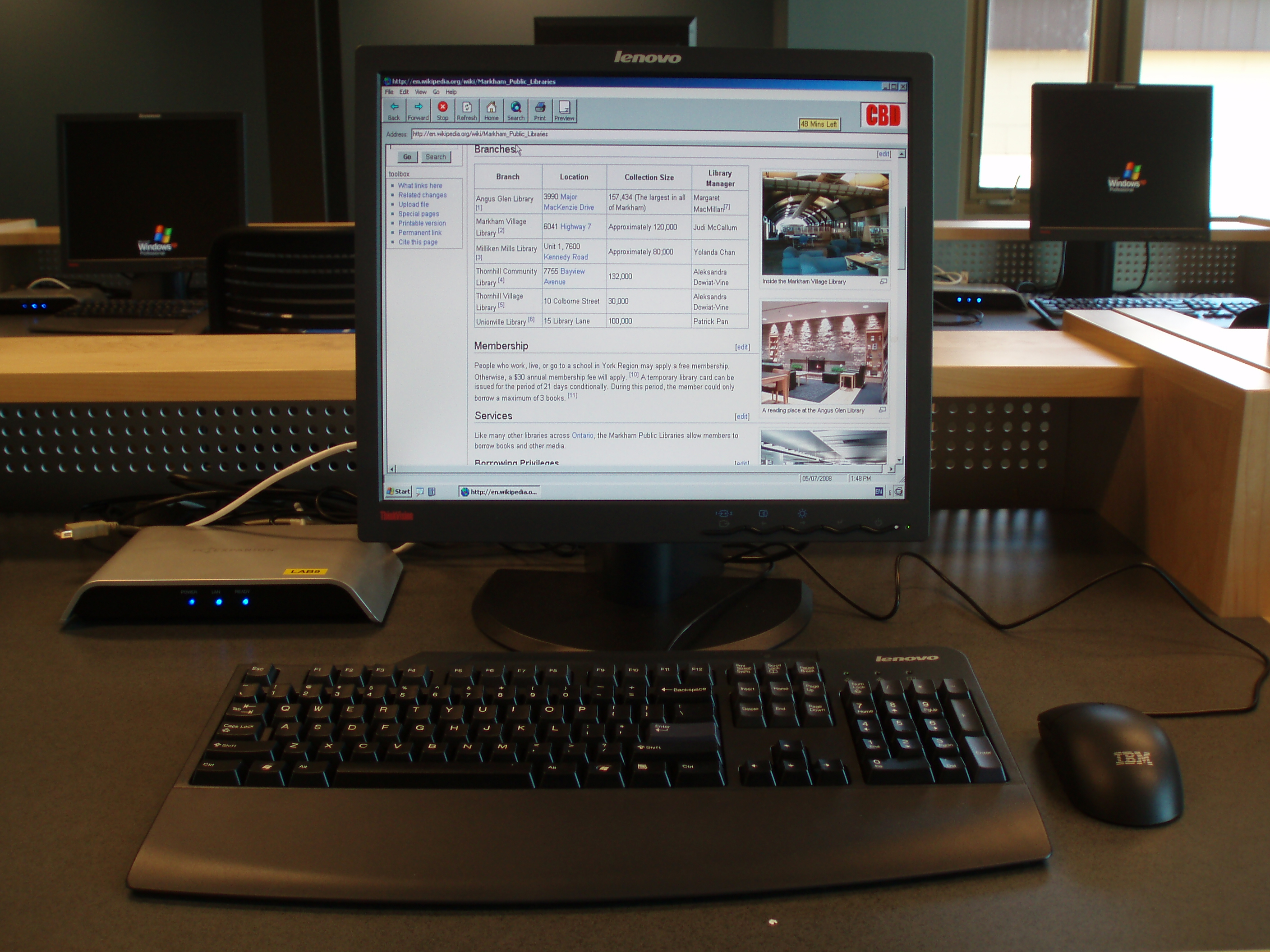 A public terminal (the PCExpanion thin client solution) at the Markham Public Libraries.